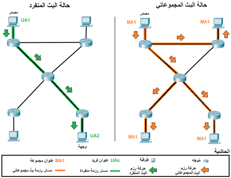 The path of packets, unicast routing Vs Multicast Routing.